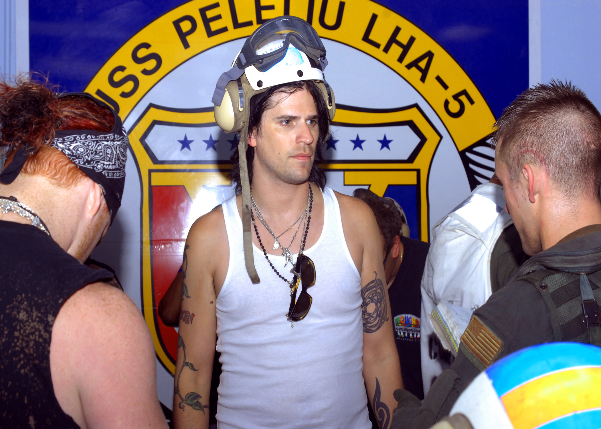 PERSIAN GULF (June 24, 2008) Austin Winkler, lead singer of the rock band "Hinder," and other band members receive flight safety instructions aboard the amphibious assault ship USS Peleliu (LHA 5) before boarding a CH-53 Super Stallion helicopter. The band toured ship and performed a concert sponsored by Navy's Morale, Welfare, and Recreation. Peleliu is deployed in support of maritime security operations in the Navy's 5th Fleet area of responsibility. U.S. Navy photo by Mass Communication Specialist 3rd Class Sarah E. Bitter (Released)